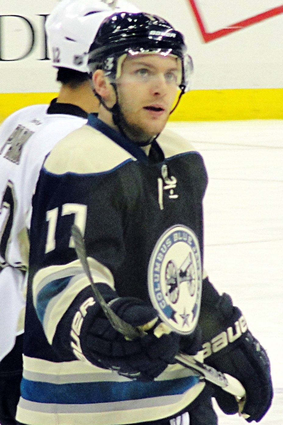 Columbus Blue Jackets center Mark Letestu skates against his former team, the Pittsburgh Penguins, February 26, 2012 at Consol Energy Center in Pittsburgh, PA.